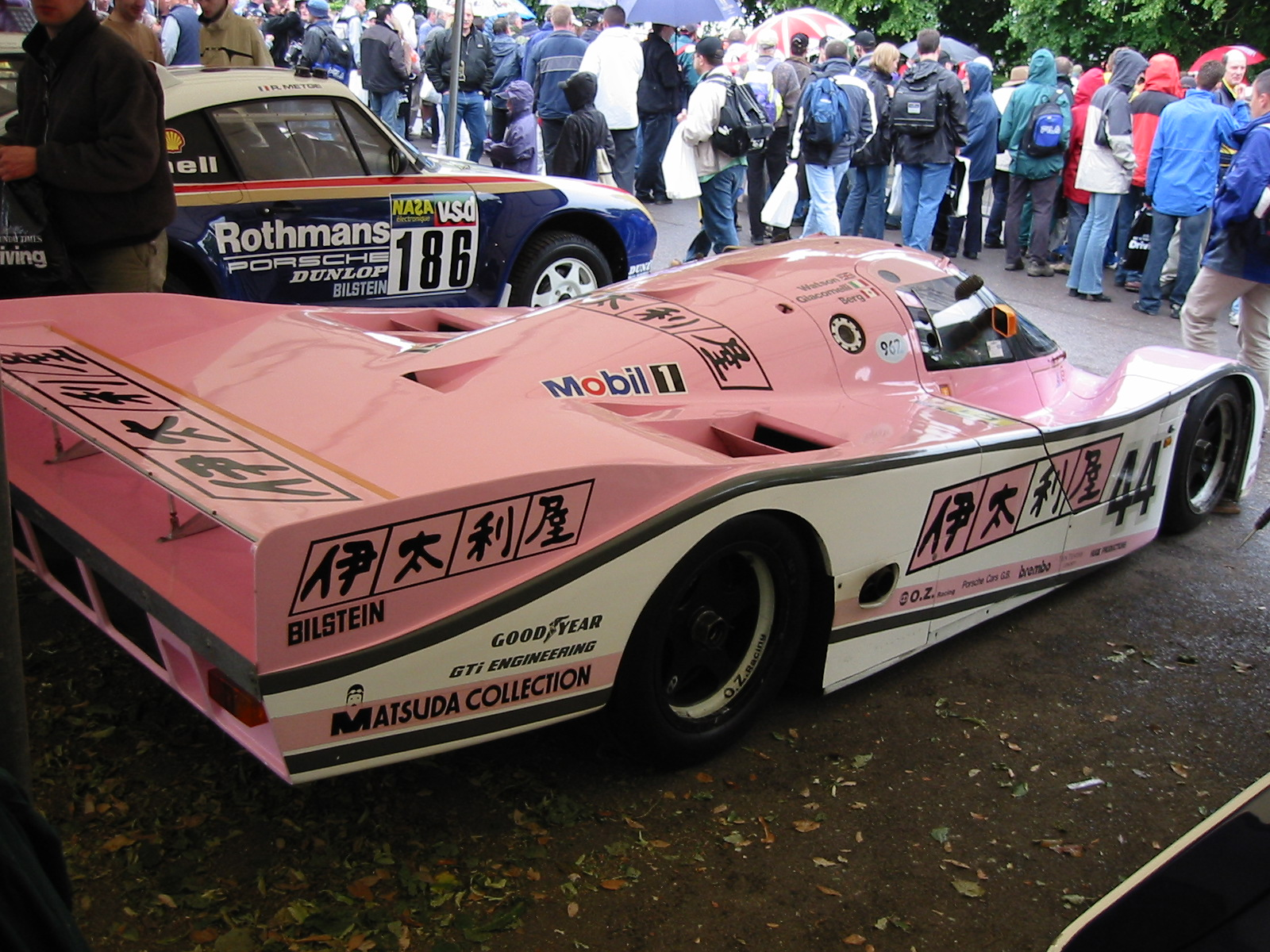 A Richard Lloyd-run Porsche 962 at the Goodwood Festival of Speed. Please note that this is the standard 962C LH (chassis #962C-161), bought by Nick Mason (of Pink Floyd fame) and run by RLR. It is not one of RLR's own 962GTi chassis.